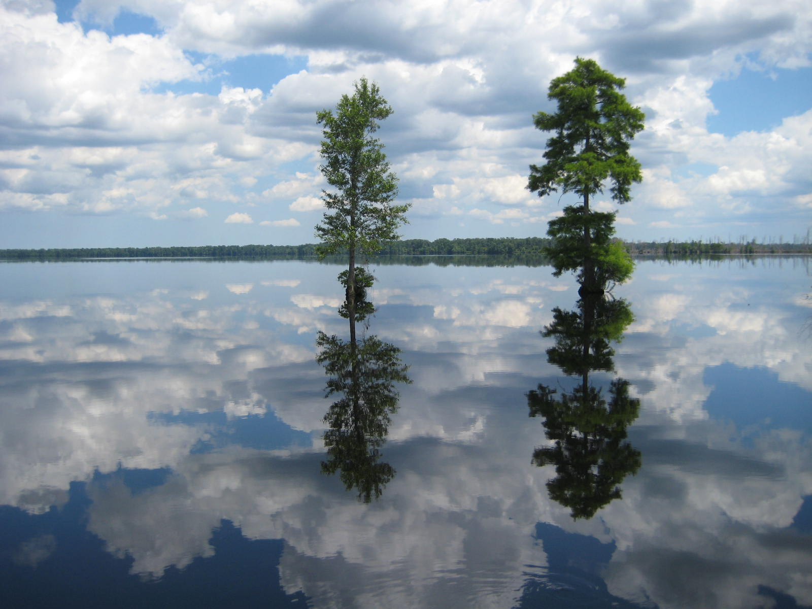 Great Dismal Swamp National Wildlife Refuge. Credit: USFWS